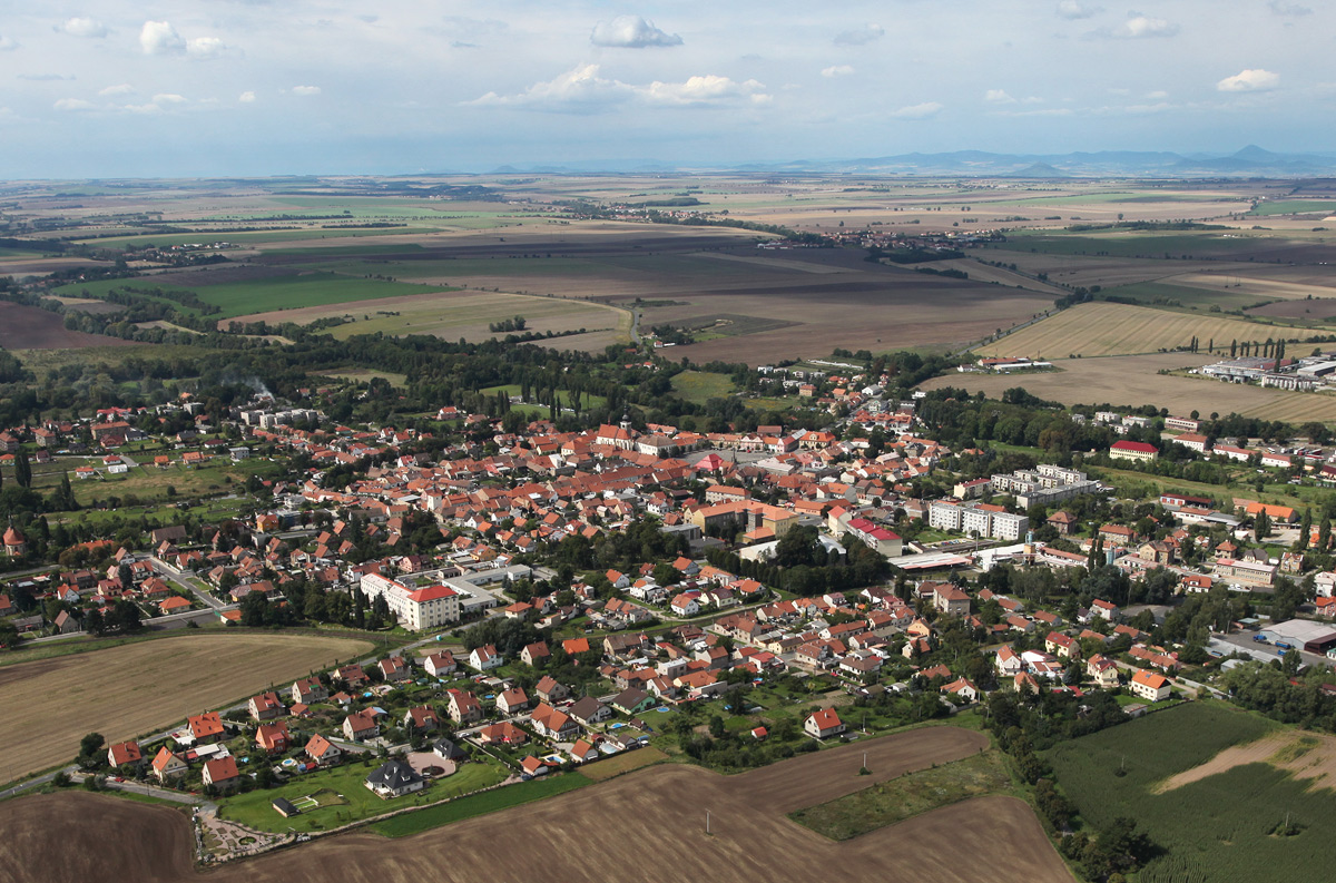 center of small town Velvary, Czech Republic - aerial view from the southeast